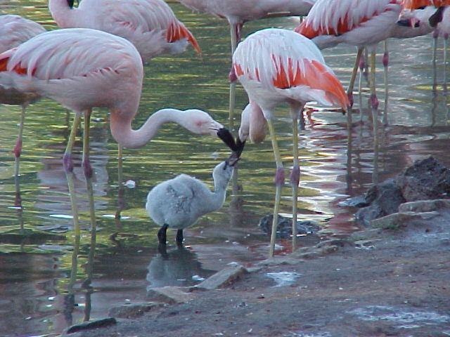 Flamingo captivity reproduction at Buenos Aires Zoo, both flamingos feeding the chick.